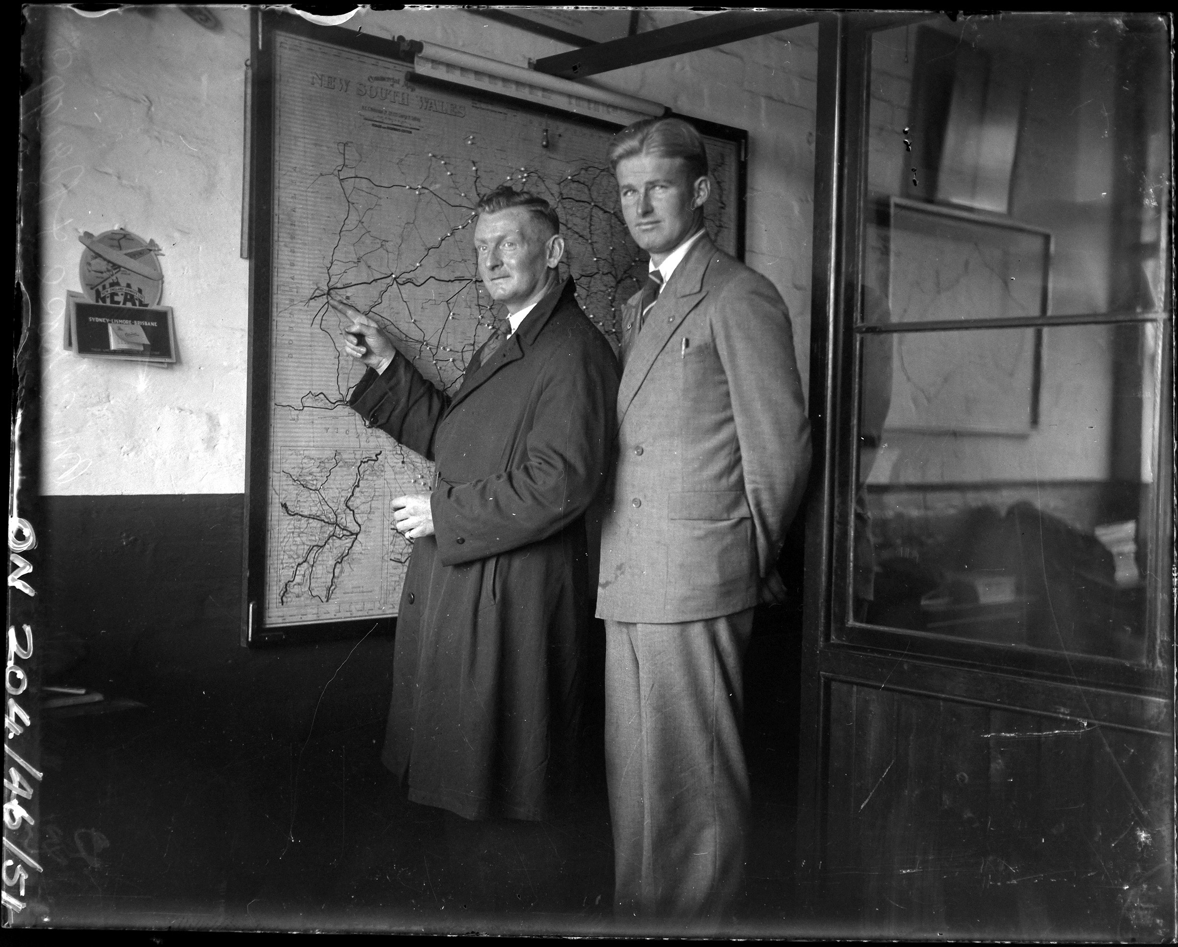 Francis Stewart Briggs (left) and Charles James Melrose (right), aviators, Sydney, August 1934. From Sam Hood collection at State Library of NSW. [ .]